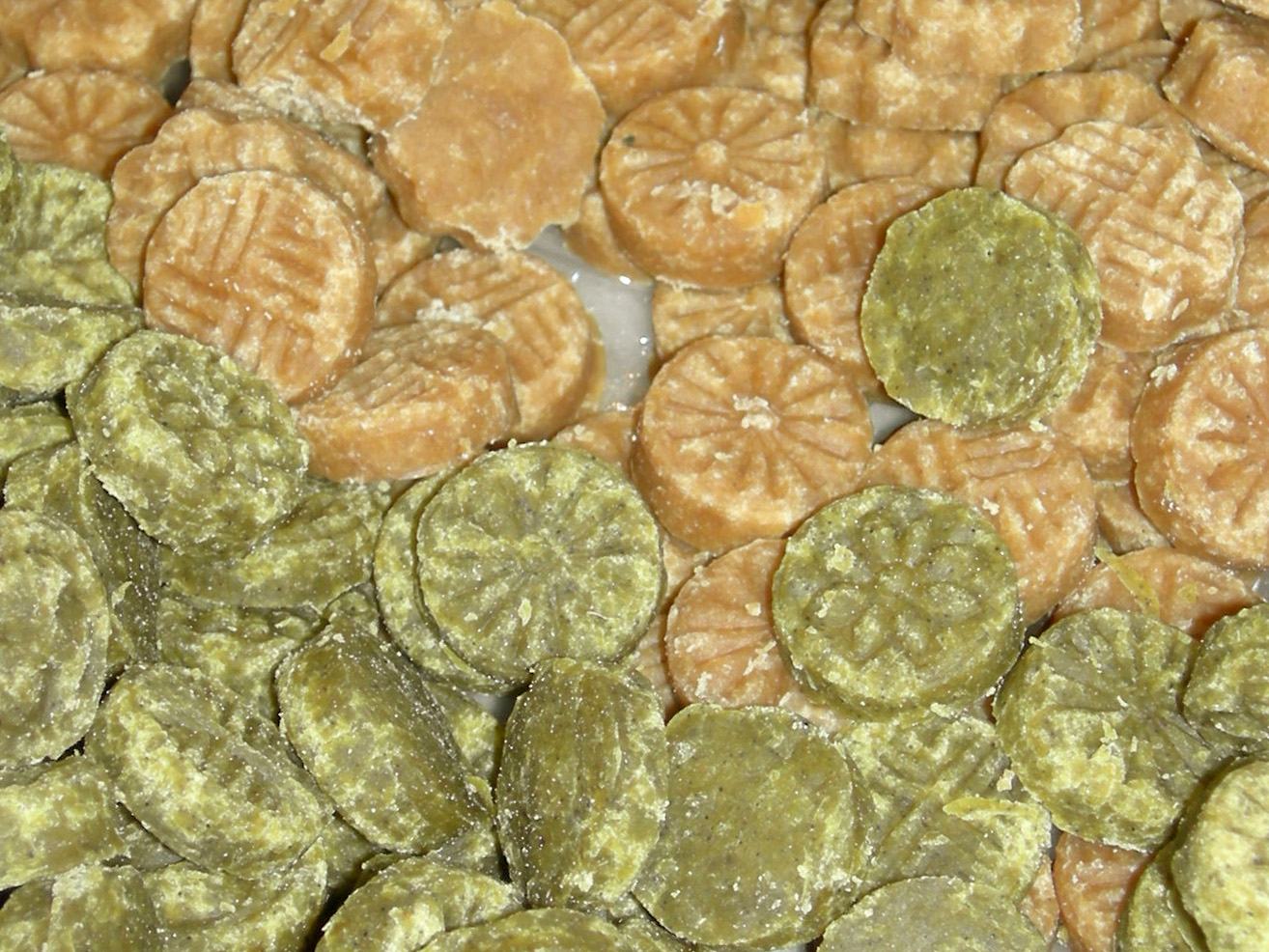 The picture represents two kind of Jjeolpyeon, which is a variety of Tteok, Korean rice cake. The light brown Jjeolpyeon is made of little bit of acron powder and rice. The other is made of Korean mugwort powder and also rice.